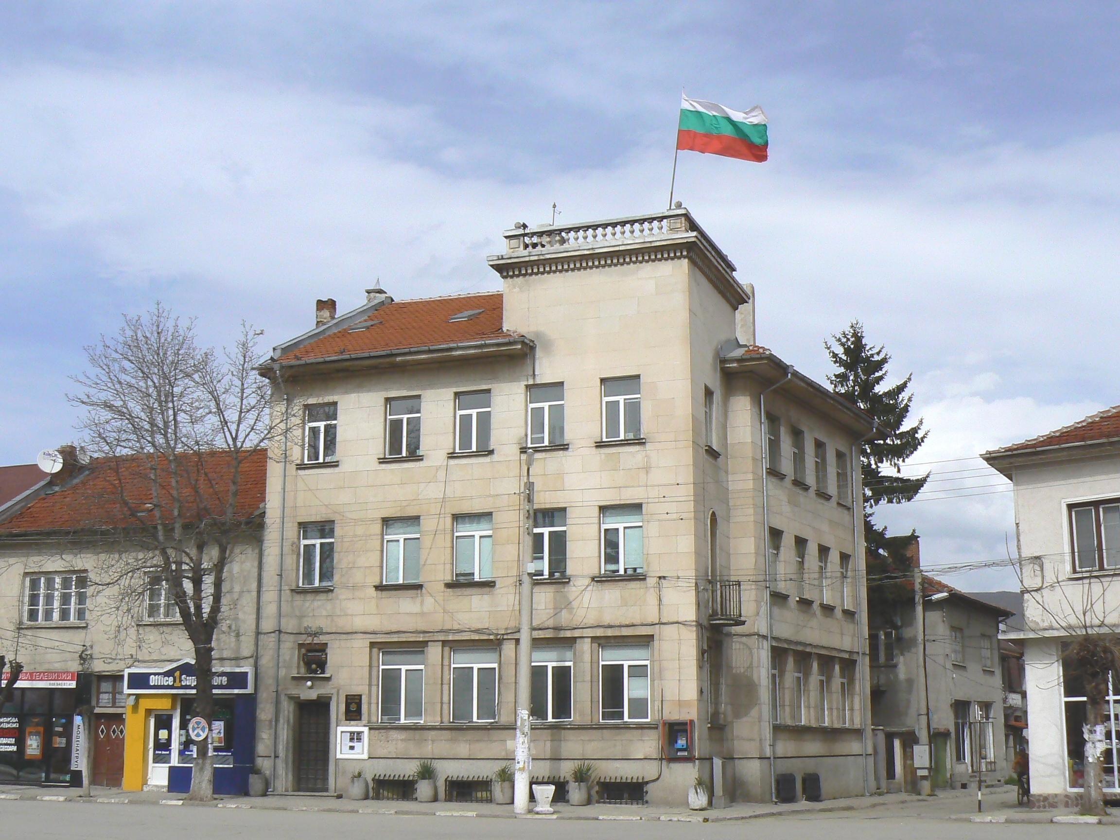 Building of Ihtiman municipality, Ihtiman, Bulgaria